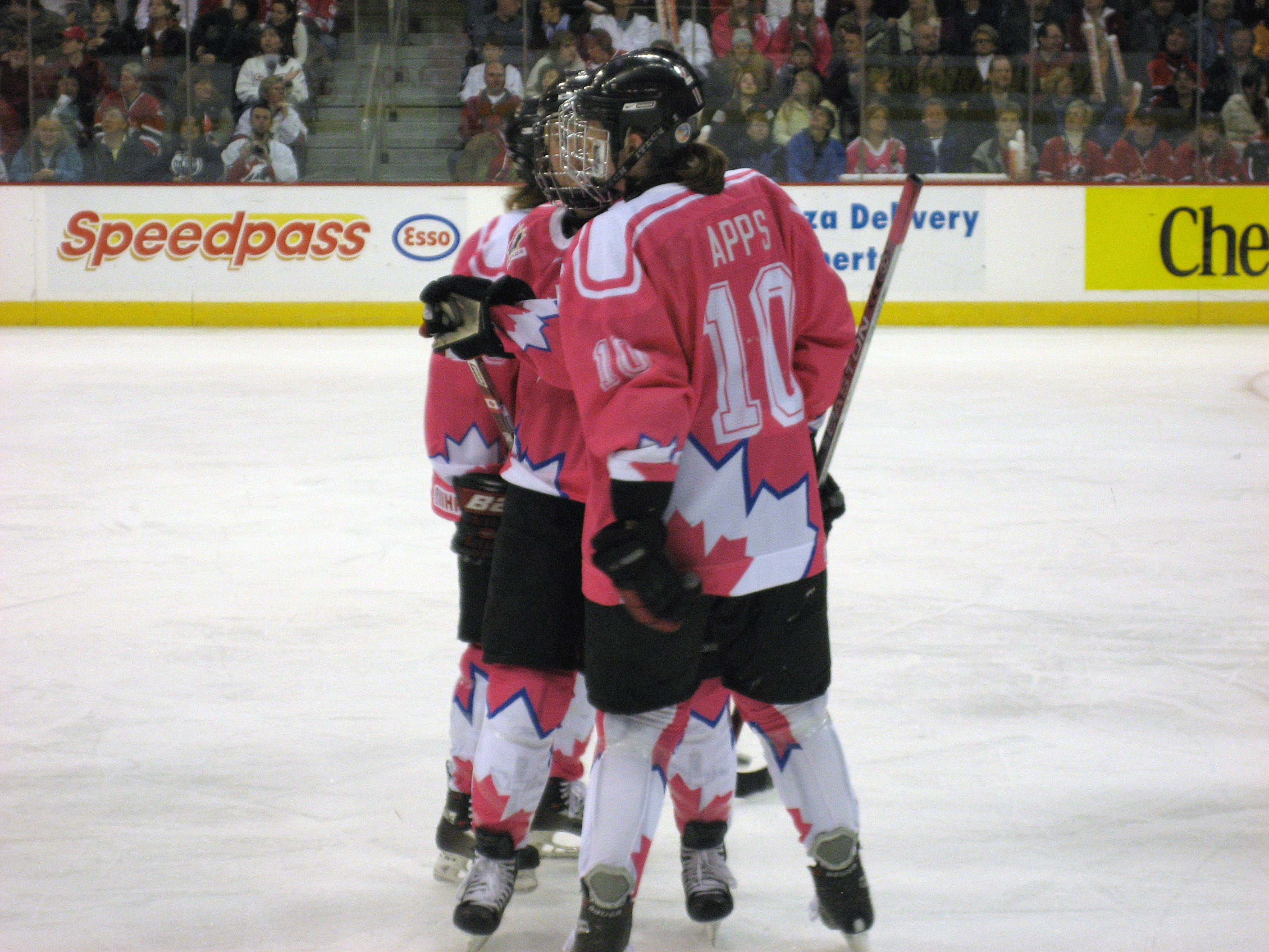 Gillian Apps, Team Canada, at IIHF Womens World Championships